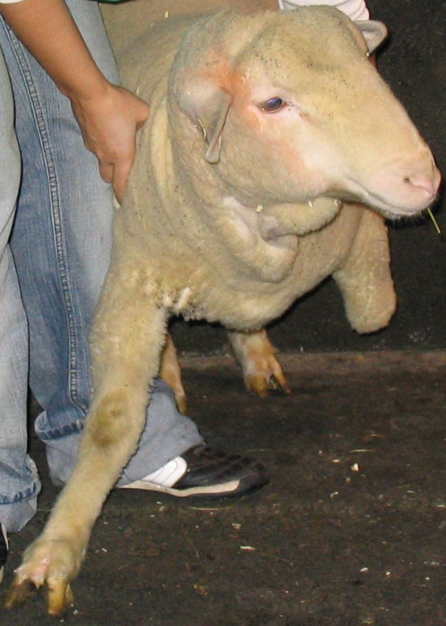 Complete absence of the hopping reaction in a sheep with stroke